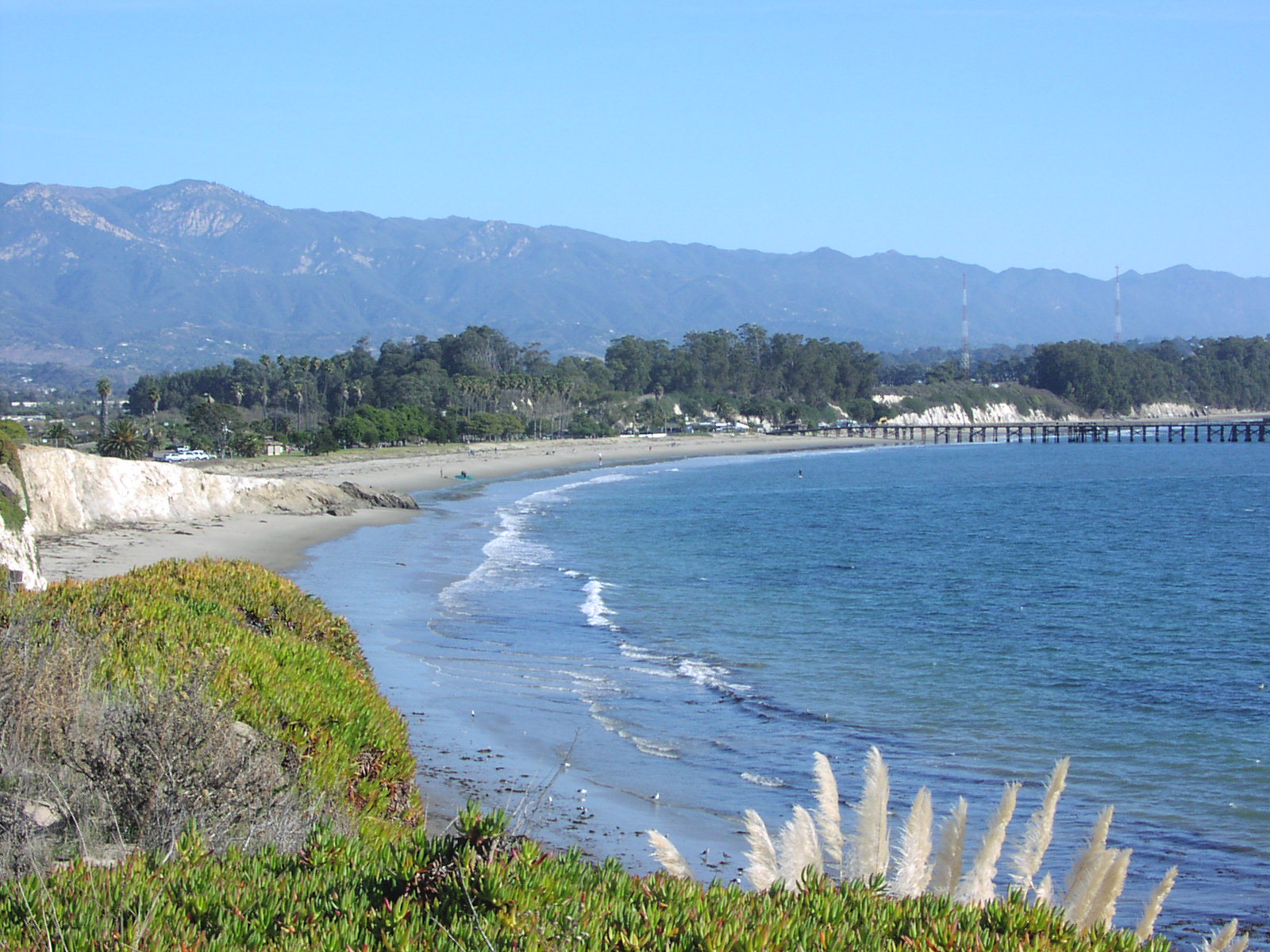 Goleta Beach from UCSB cliffs, Santa Ynez Mountains in backround. Taken by Antandrus, 12/30/2006